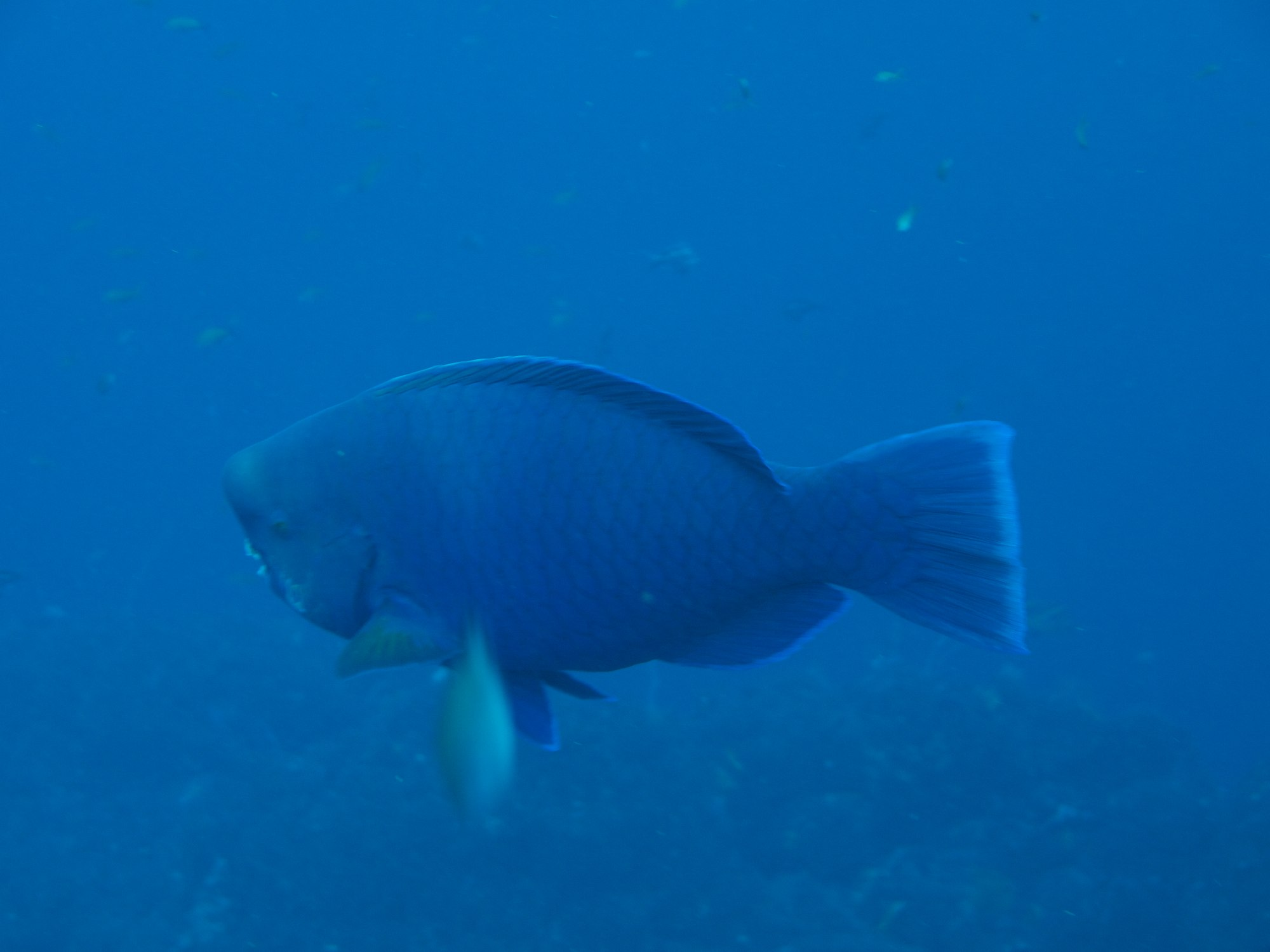 Scarus ovifrons